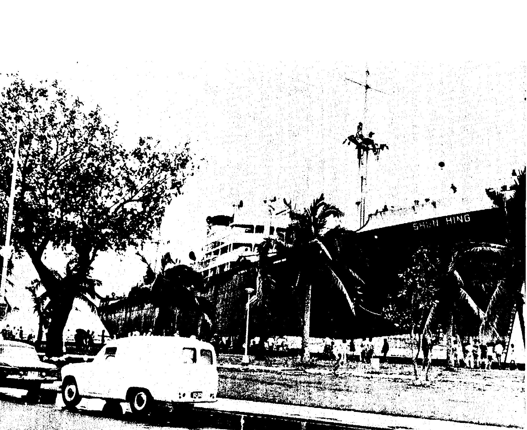 ship runaground by typhoon ora